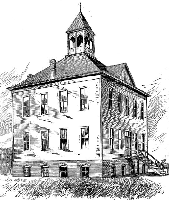 This drawing of Graysville Academy appeared in an article about how the enforcement of Sunday work legislation affected the school causing it to close.